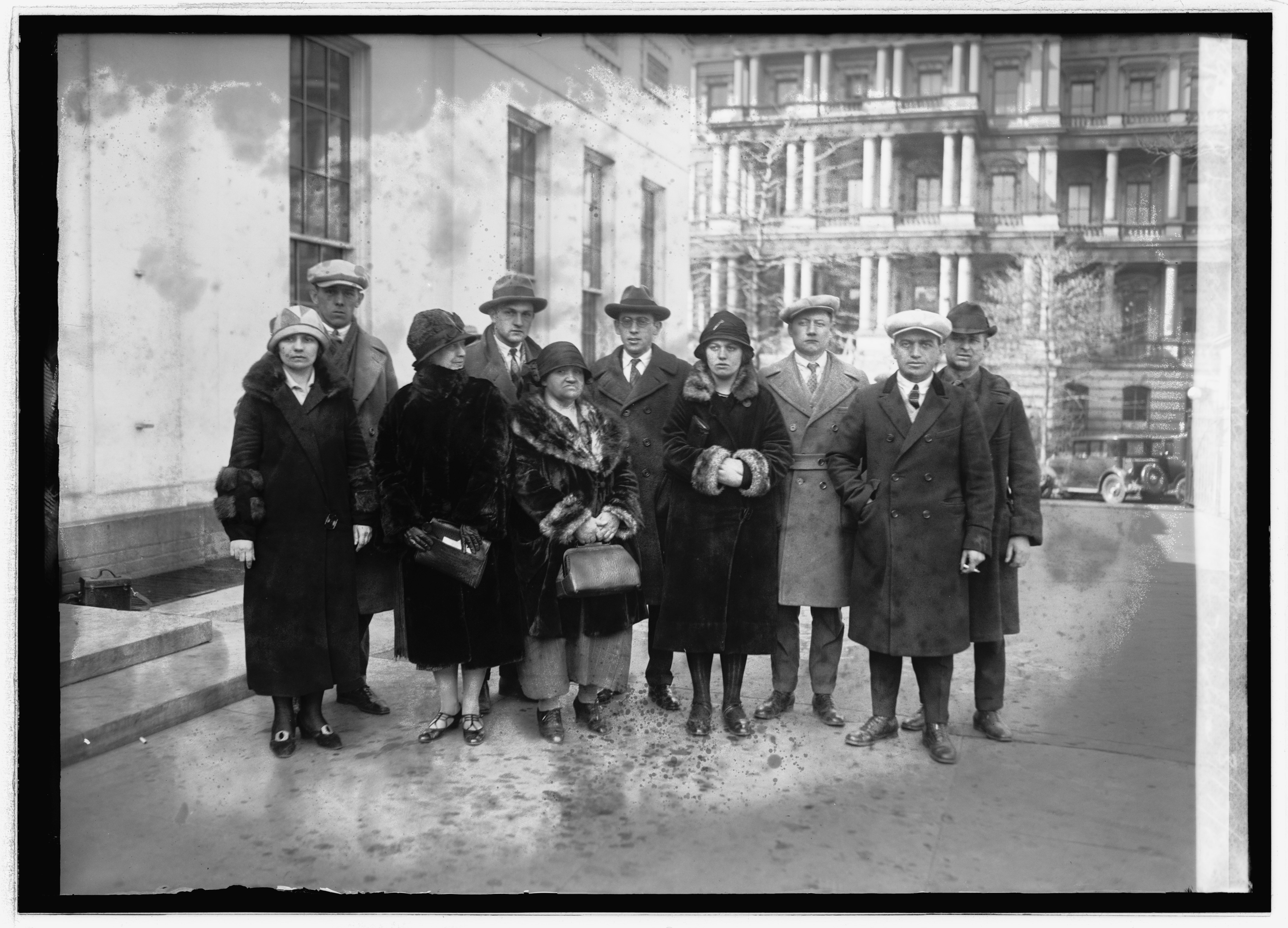 Title: Delegation from textile mills, Passaic N.J., 3/17/26 Abstract/medium: 1 negative : glass ; 5 x 7 in. or smaller